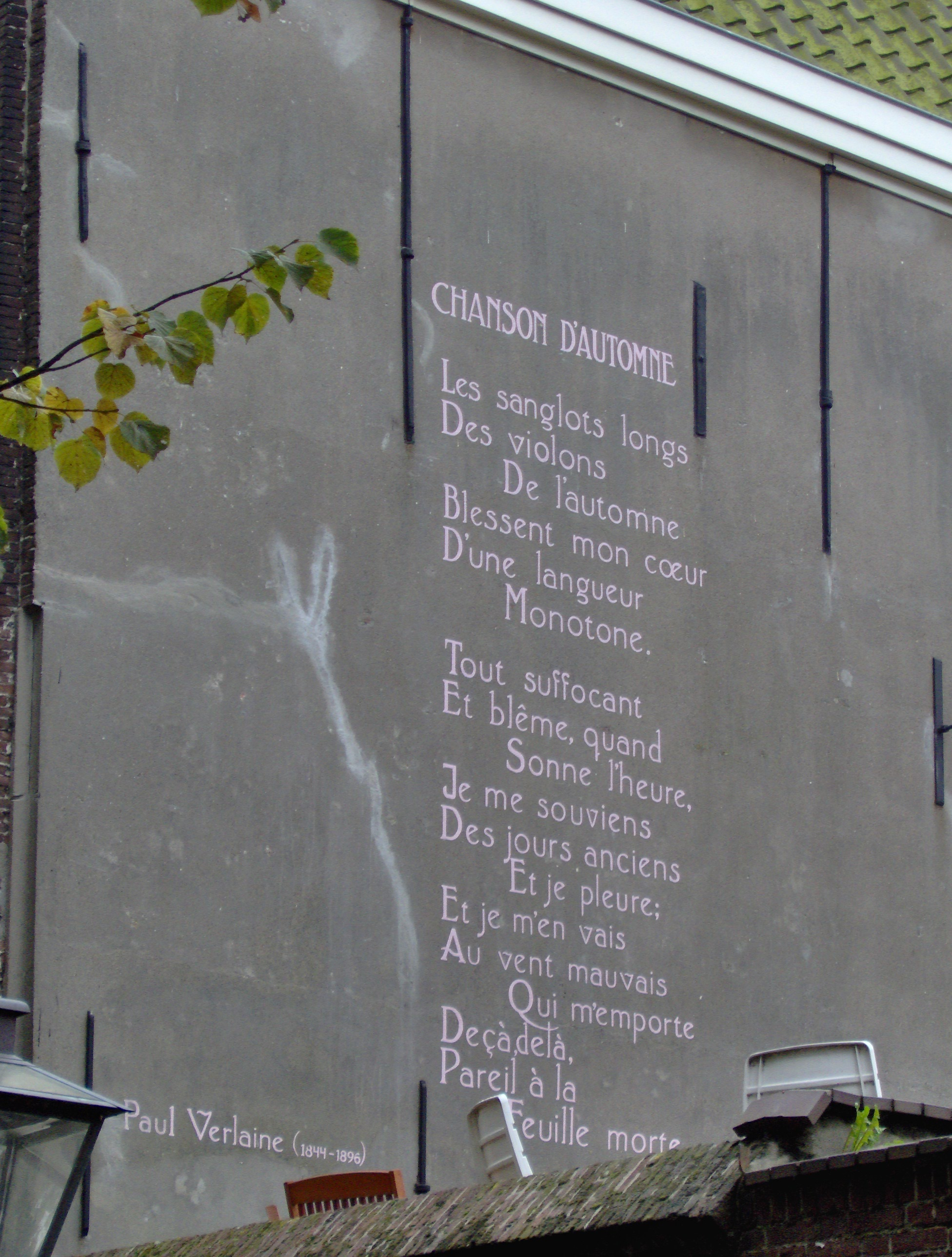 The poem Chanson d'automne of the French poet Paul Verlaine on a wall of the building at Pieterskerkhof 4 in Leiden, The Netherlands.